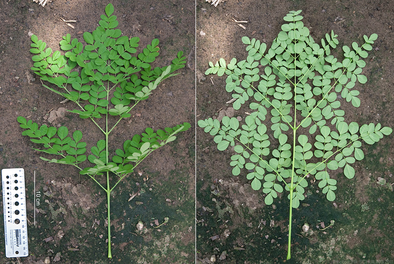 Upper surface and underside of a leaf of the drumstick tree (Moringa oleifera) (greenhouse Wageningen University, Netherlands jun2011).